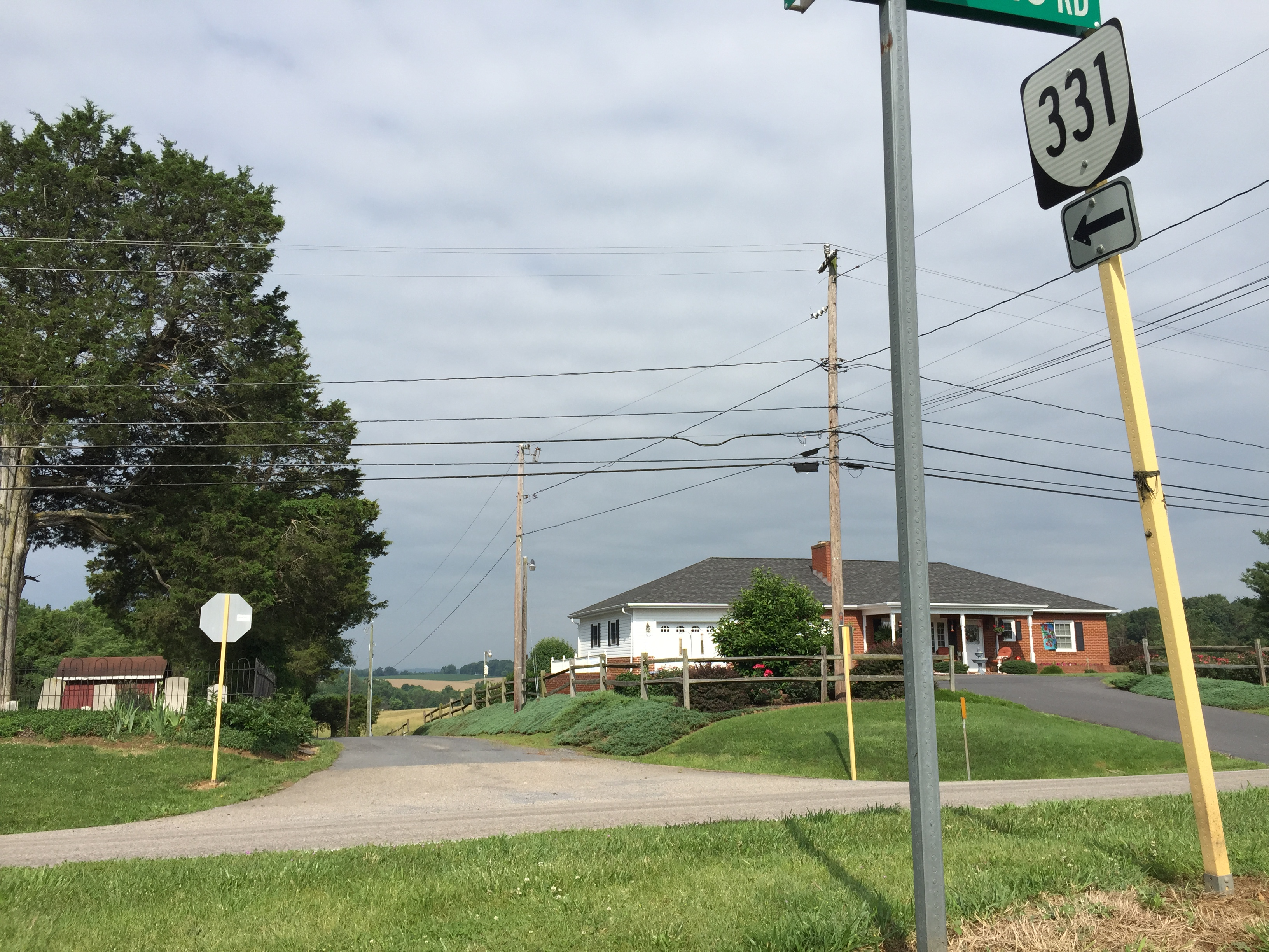 View west along Virginia State Route 331 (Alumnae Drive) at Virginia State Route 253 (Port Republic Road) near Port Republic in Rockingham County, Virginia